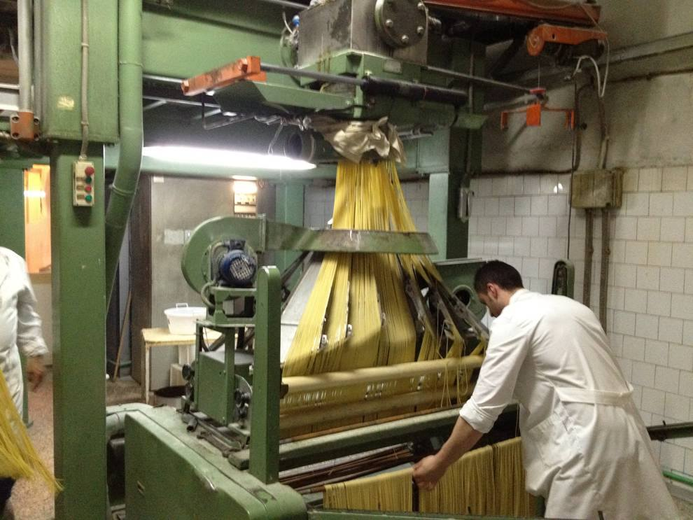 Faella Spaghetti, Gragnano - Italy.